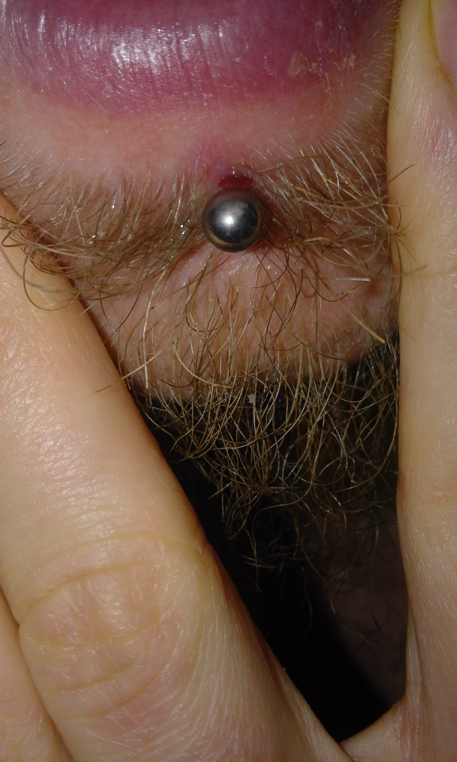 Hypertrophic scar (red spot) that developed on the lip 7 weeks after piercing it. Direct cause unknown. Picture taken 3 days after the scar was first noticed.